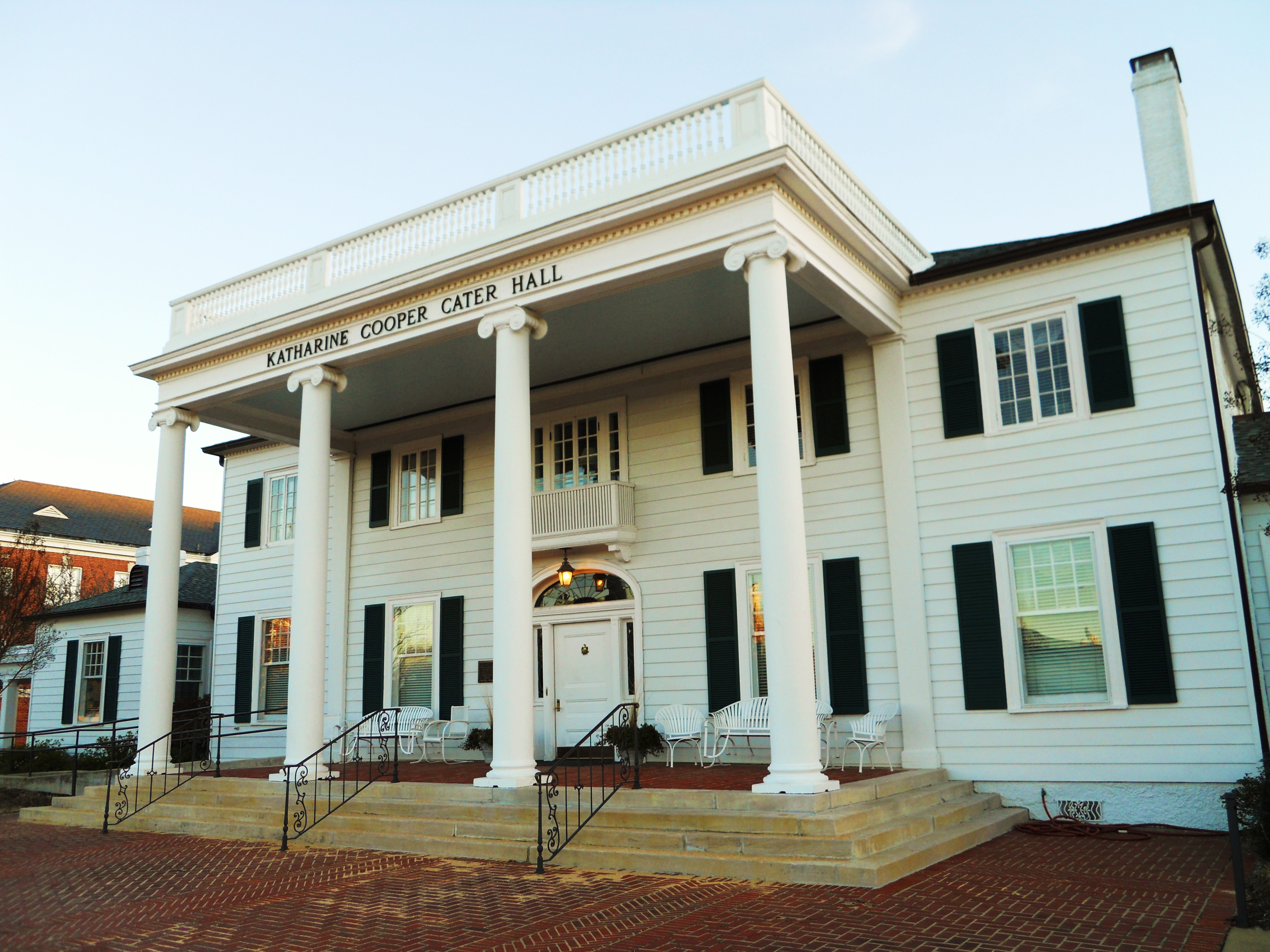 This is a picture of Katharine Cooper Cater Hall (also known as the "Old President's Mansion") located on the campus of Auburn University in Auburn, Alabama.